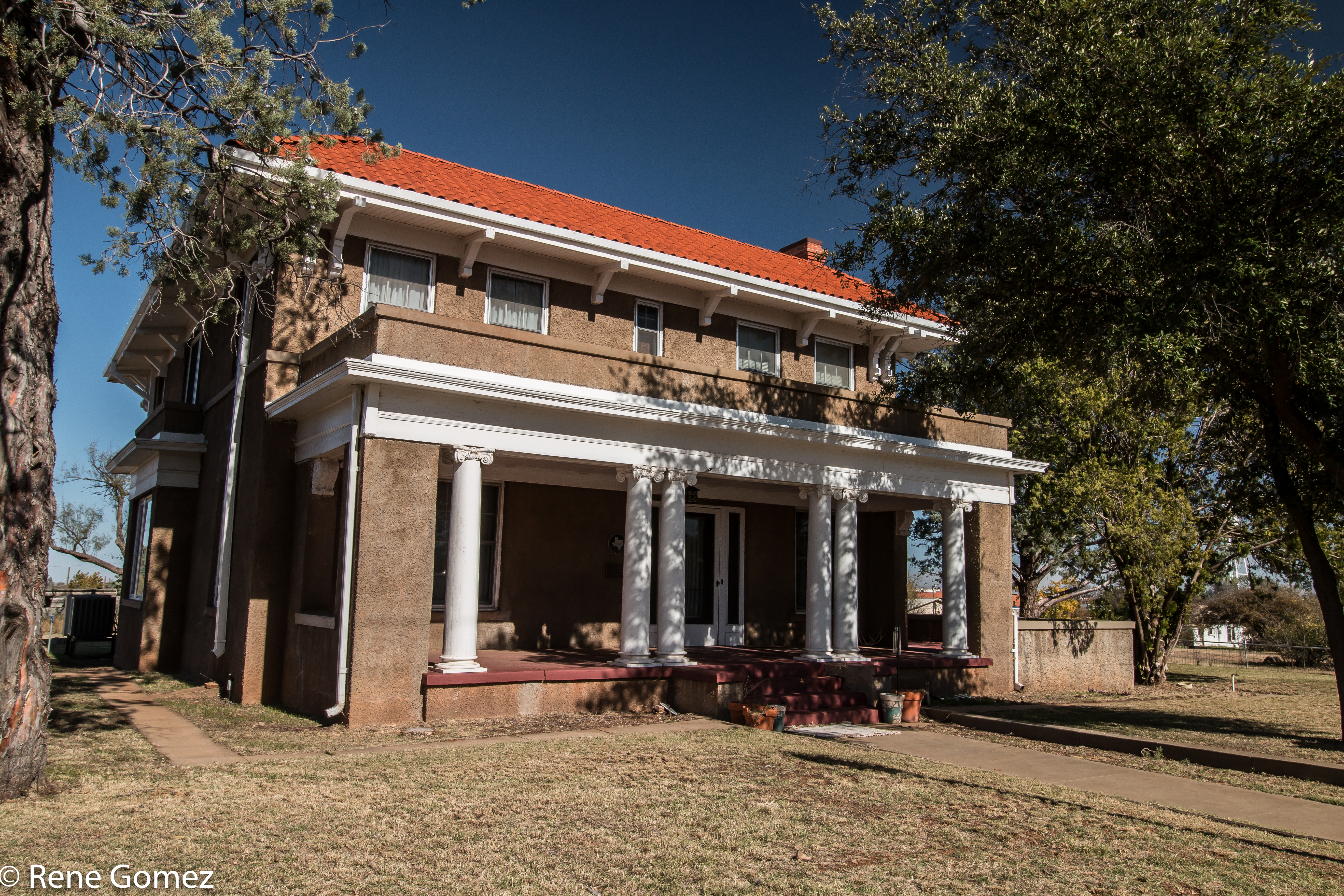 Traweek House in Matador, Texas